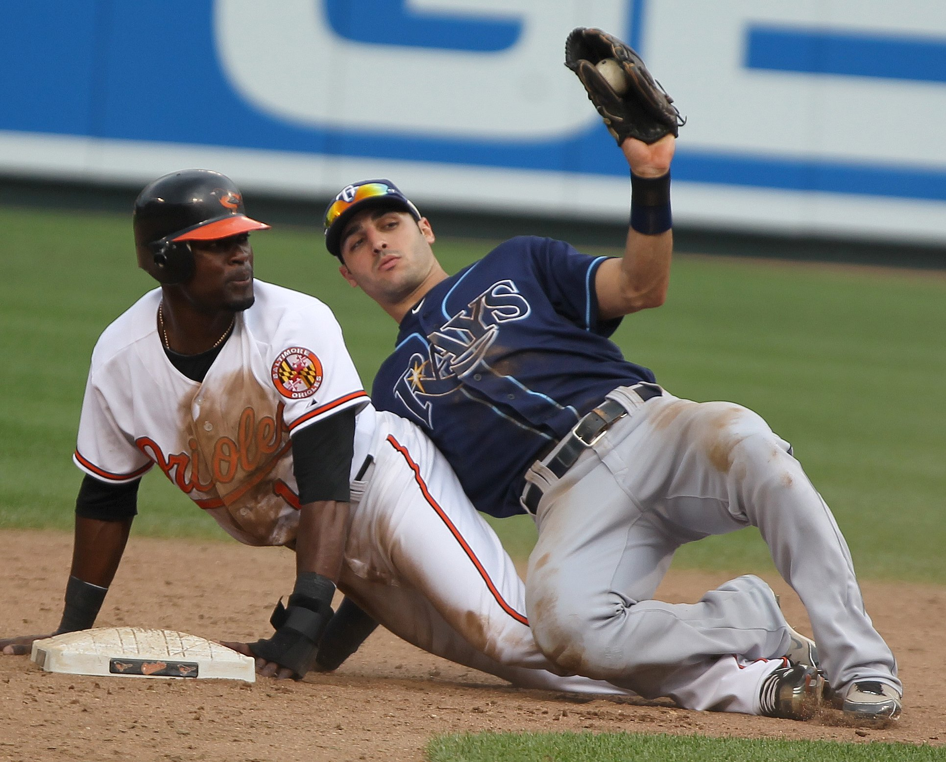 Felix Pie #18 of the Baltimore Orioles is caught trying to steal second base by Sean Rodriguez #1 of the Tampa Bay Rays at Oriole Park at Camden Yards on June 12, 2011 in Baltimore, Maryland.